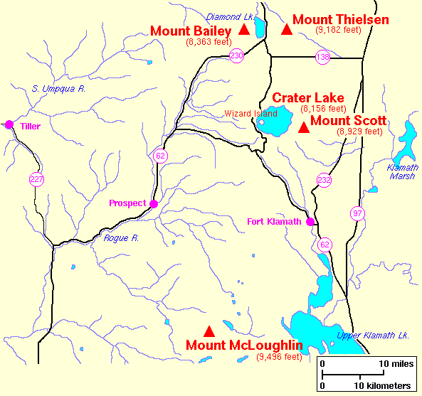 United States Geological Survey map of the southern Oregon Cascades.